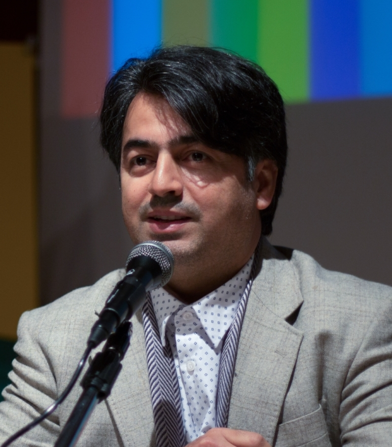 Parvaz Homay at 8th Event of CreativeMornings/Tehran